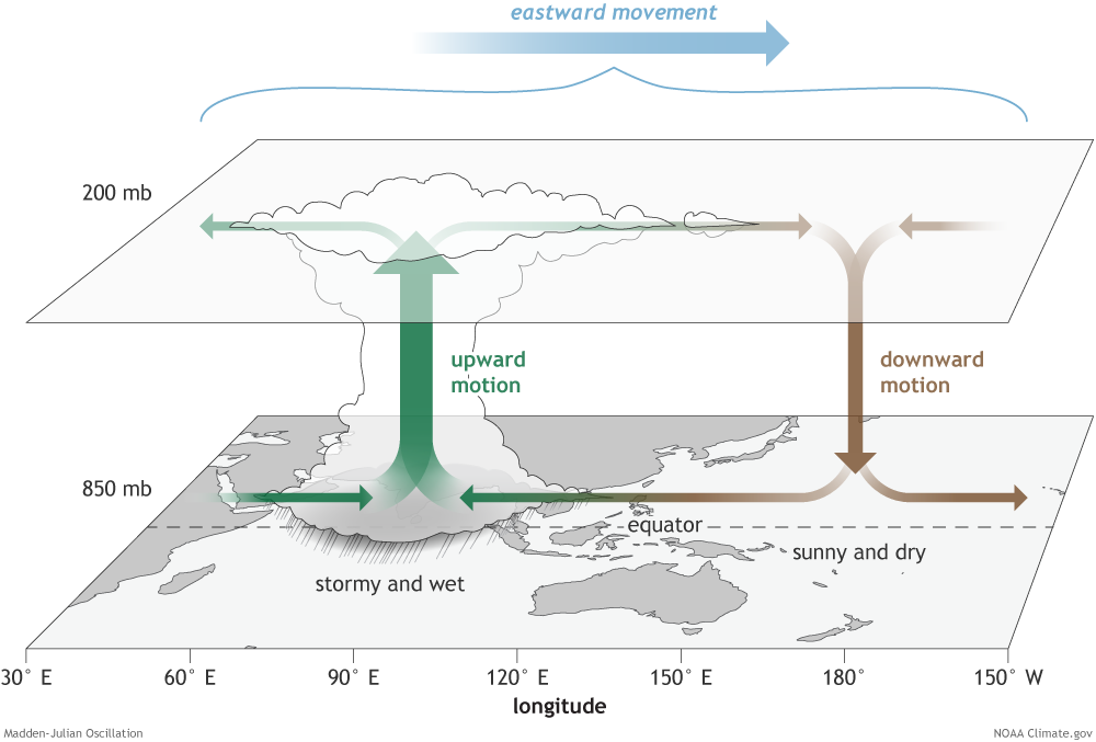 The surface and upper-atmosphere structure of the Madden–Julian oscillation (MJO) for a period when the enhanced convective phase (thunderstorm cloud) is centered across the Indian Ocean and the suppressed convective phase is centered over the west-central Pacific Ocean. Horizontal arrows pointing left represent wind departures from average that are easterly, and arrows pointing right represent wind departures from average that are westerly. The entire system shifts eastward over time, eventually circling the globe and returning to its point of origin.